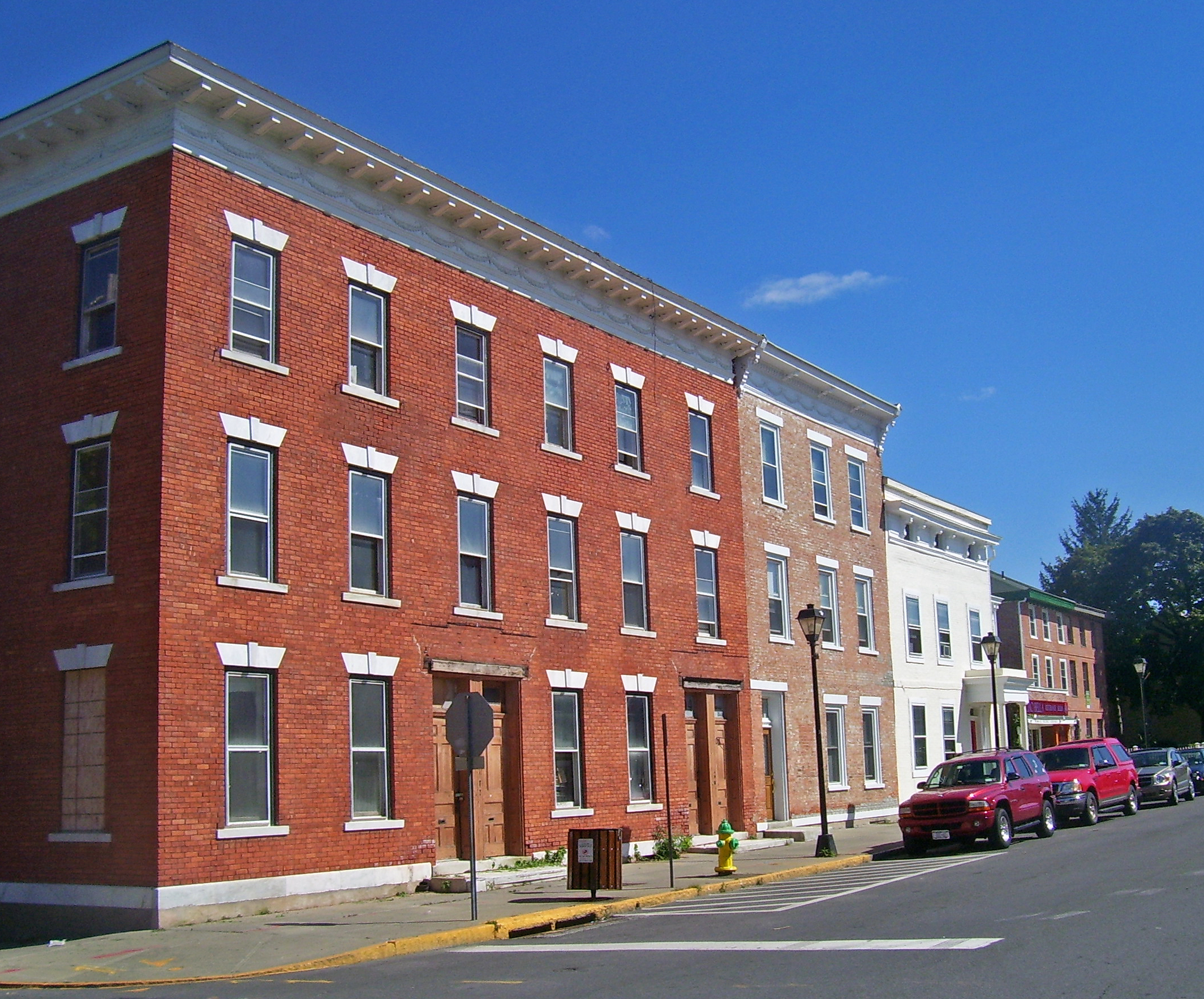 Buildings on Lower Warren Street in Hudson, NY, USA. Part of the original Front Street-Parade Hill-Lower Warren Street Historic District in the early 1970s, later expanded into the Hudson Historic District.